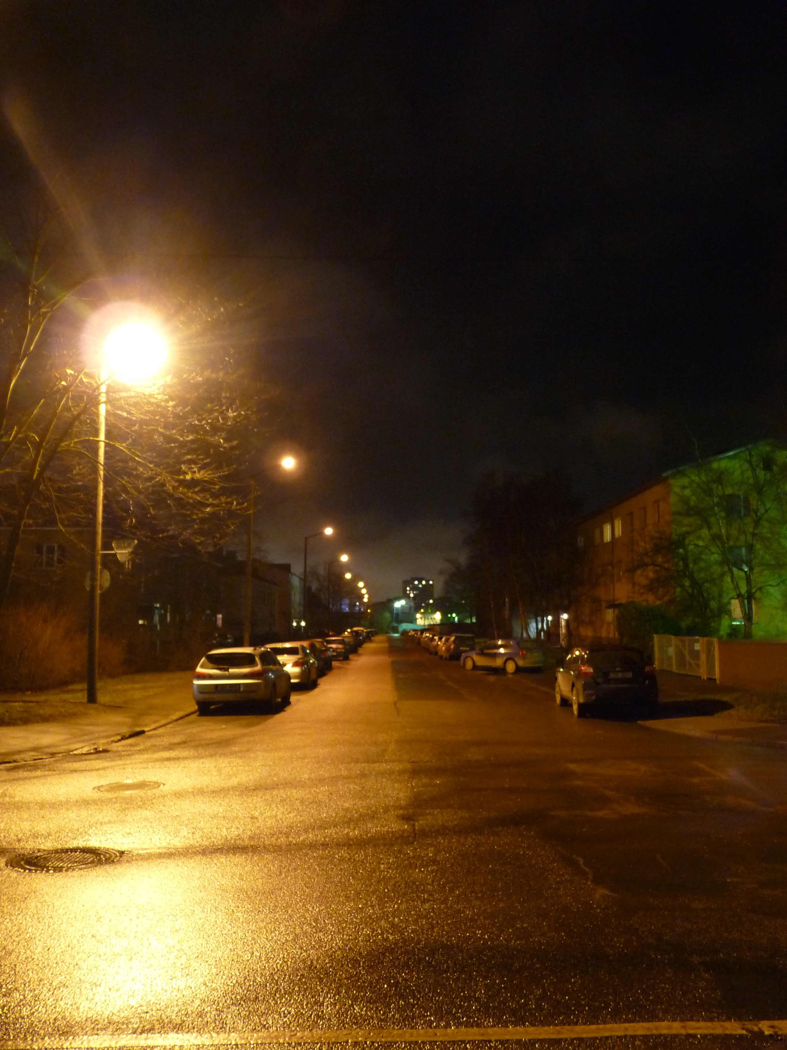 Tuha street in Tallinn, Estonia